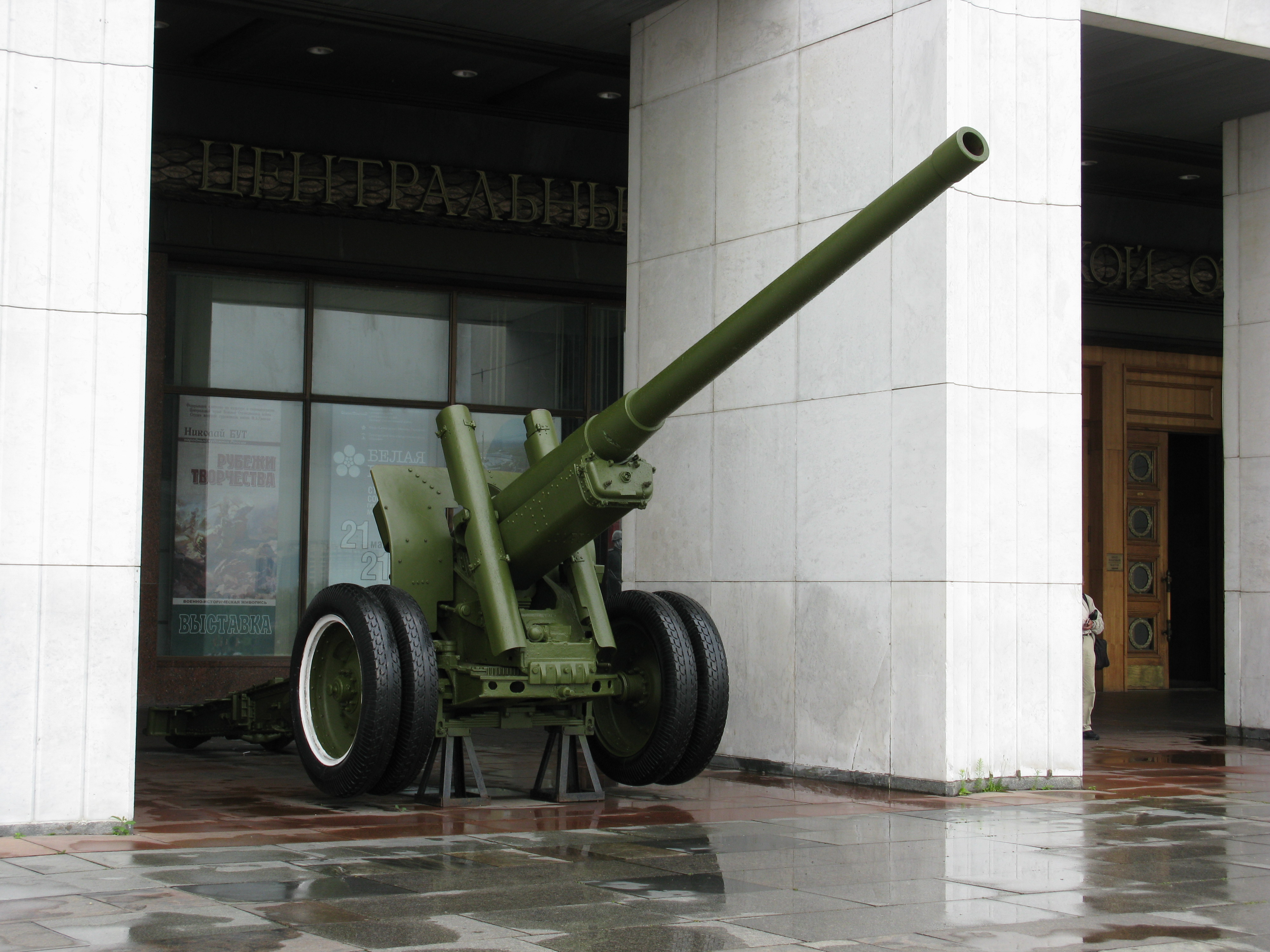 122 mm gun M1931/37 (A-19), Moscow, Russia